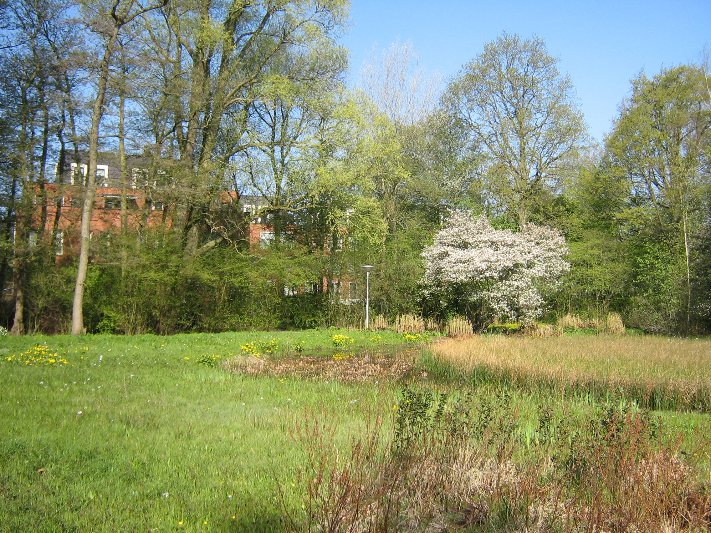 The Koos J. Landwehrpark, a small public park along the Amsterdamseweg in Amstelveen, the Netherlands. This is a municipal monument registered under number 0362/10130.